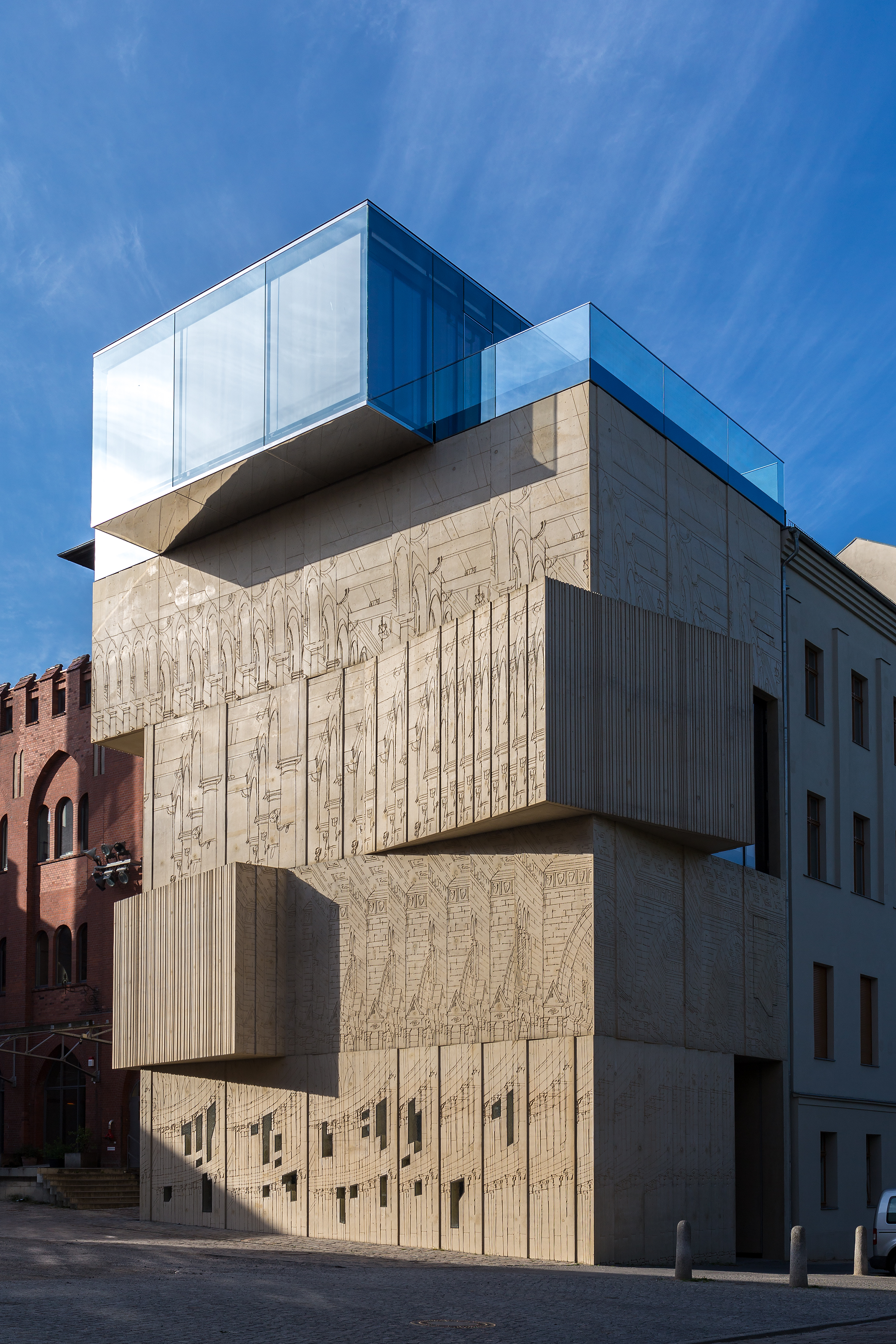 The Museum for Architectural Drawing on the Pfefferberg site in Berlin-Prenzlauer Berg as seen from Christinenstrasse. The museum was designed by the architects SPEECH Tchoban & Kuznetsov, Moscow.